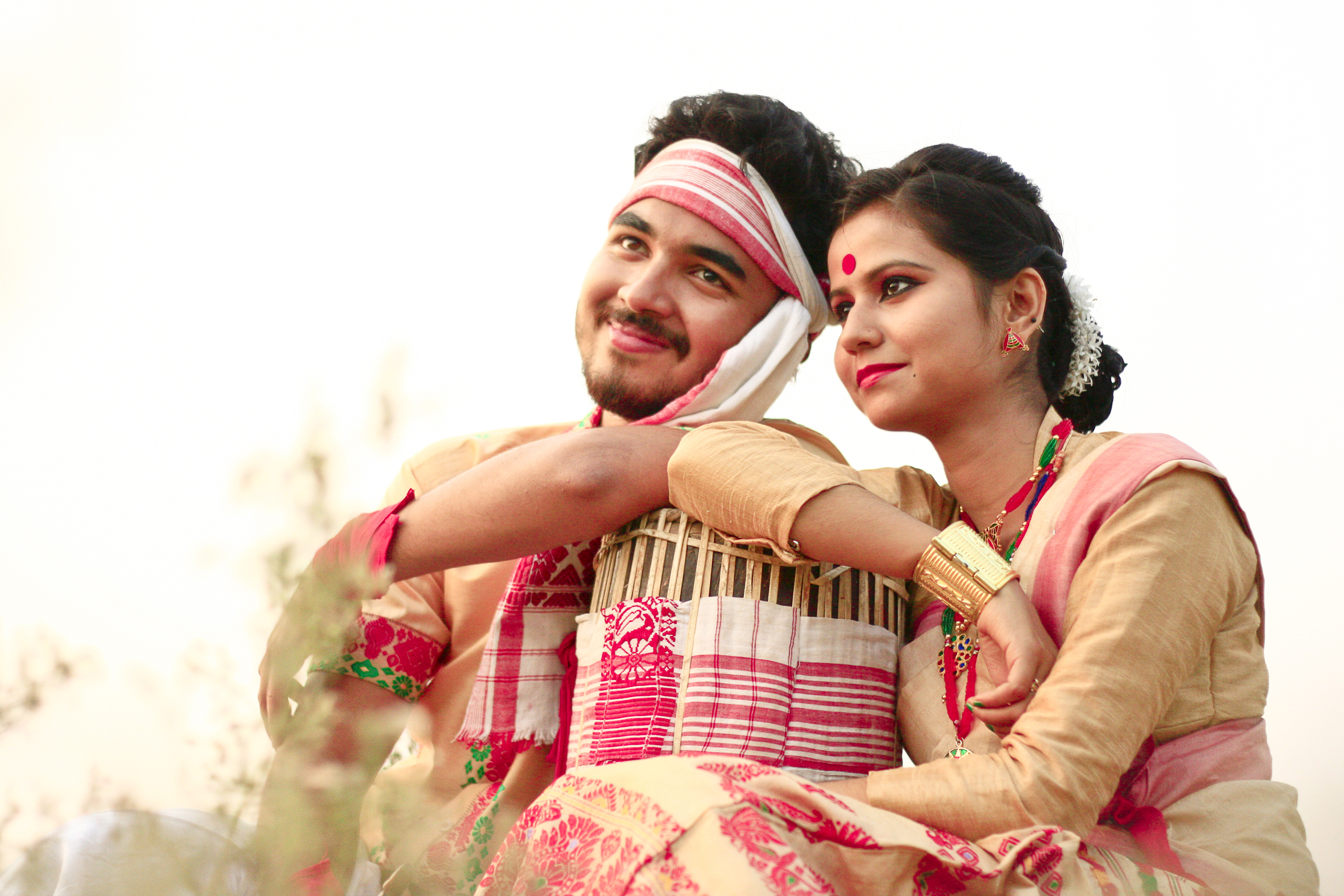 Assamese youths in traditional attire during the time of Bihu festival in Assam